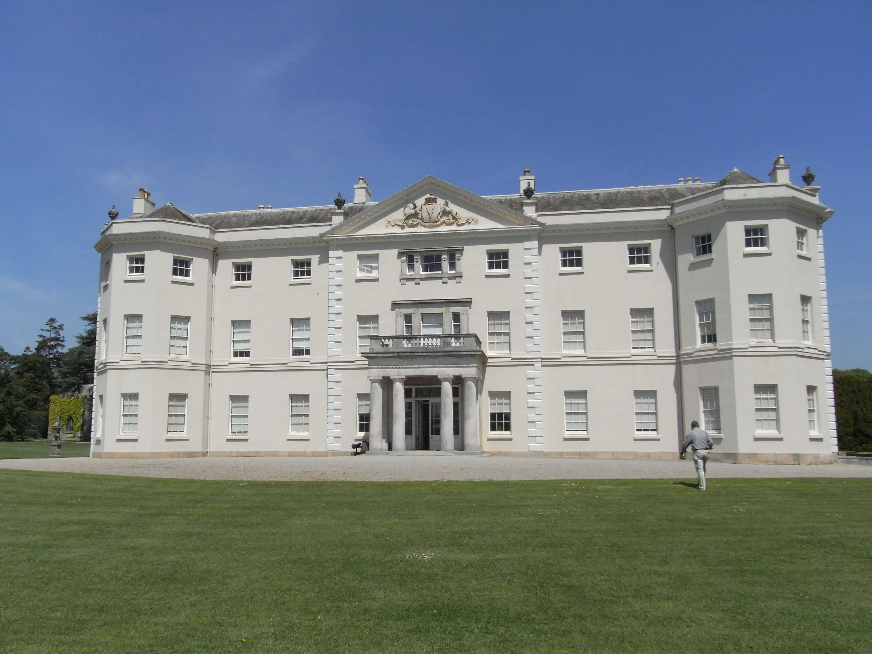 Saltram House, Devon, south front.